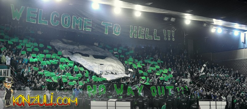 Pelister supporters Ckembari at the handball game Pelister vs Meskov Brest.